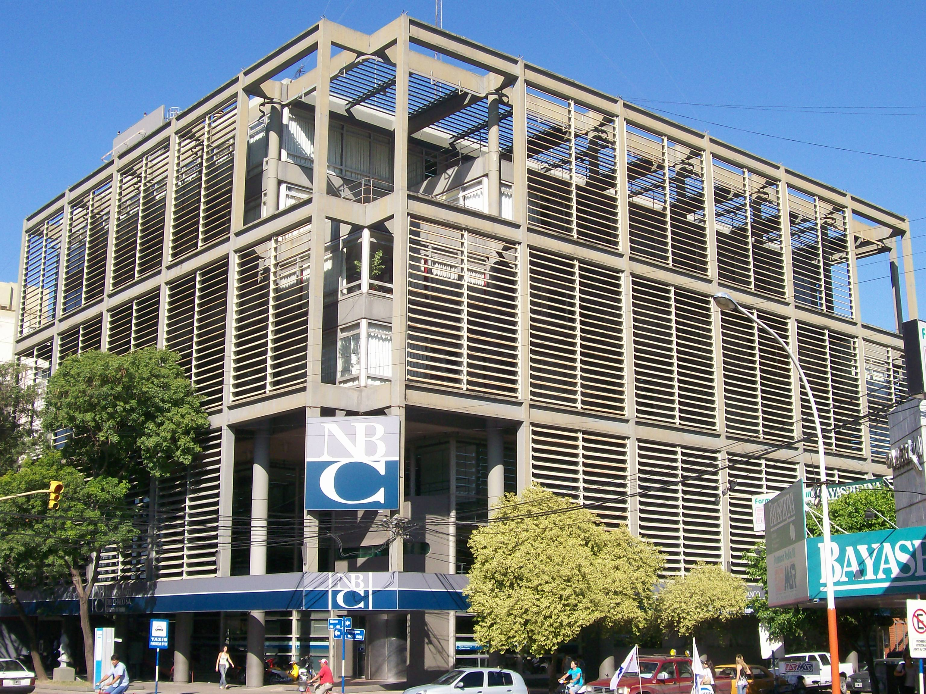 Head office of Nuevo Banco del Chaco (Chaco Province's New Bank) in Resistencia, Chaco, Argentina.